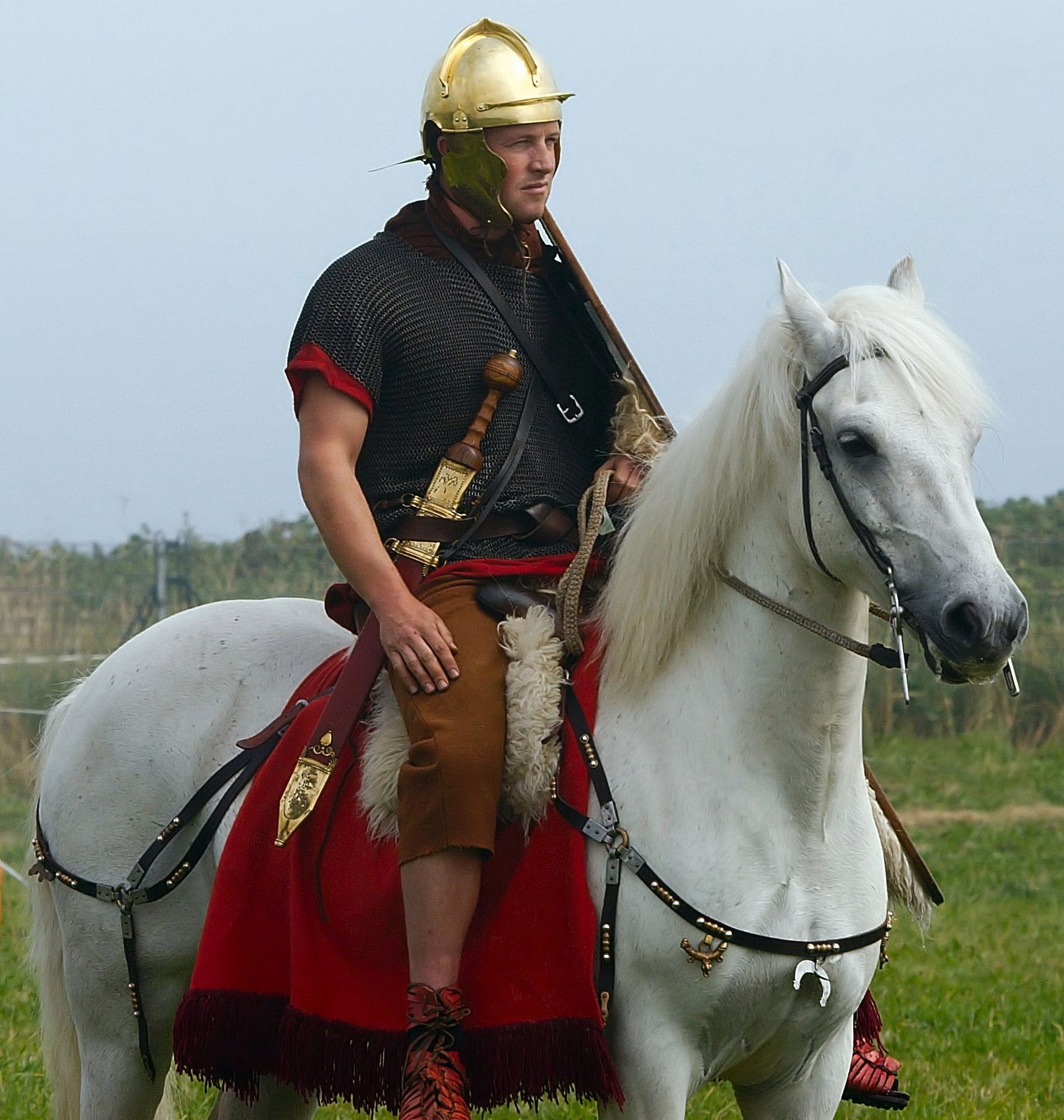 Image taken at the display of Roman Army. Tactics Scarborough Castle UK Aug-07. The Spatha was one of the main swords of Imperial Rome, mainly used by the Cavalry.